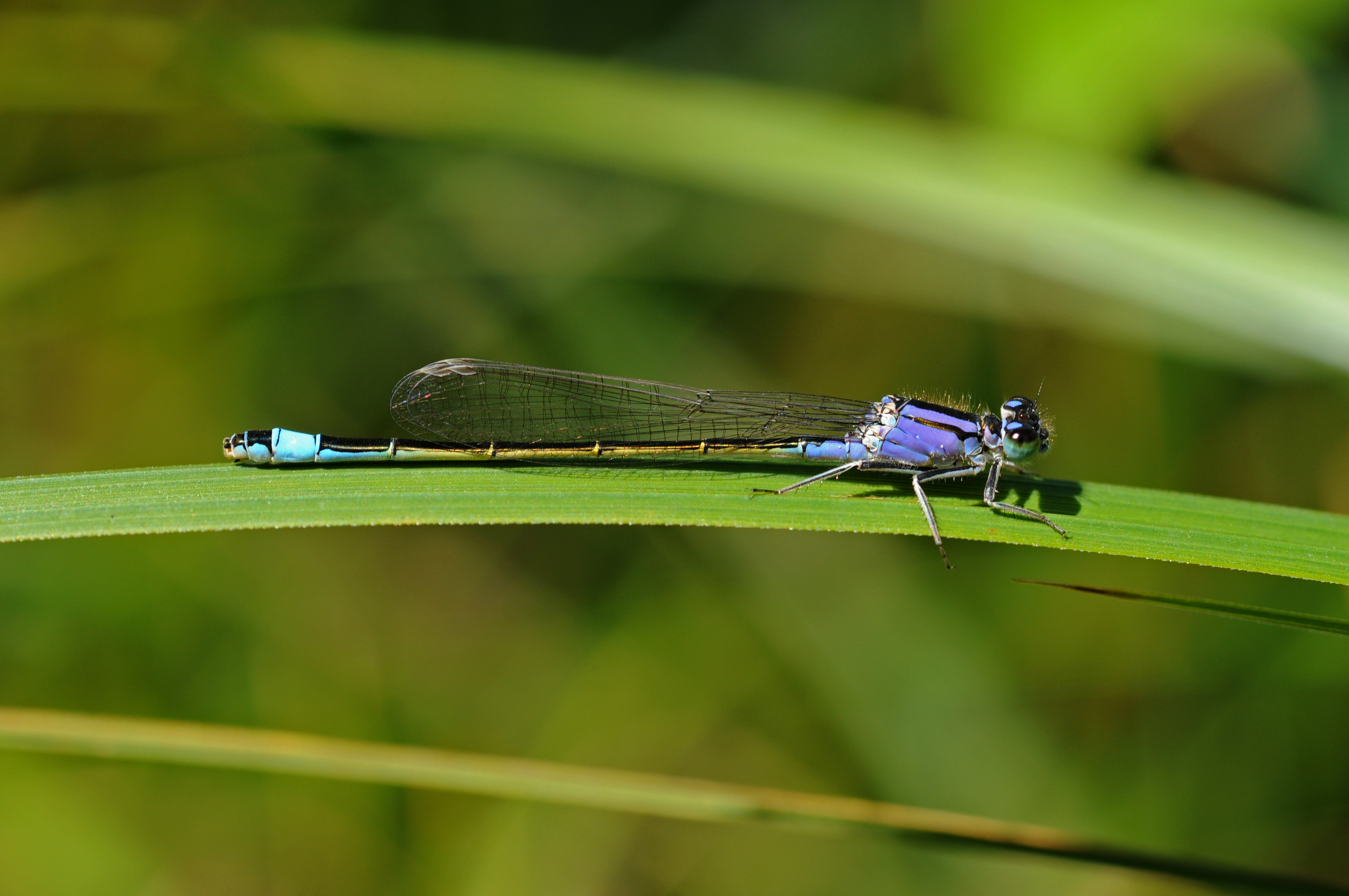 Immature Blue-tailed Damselfly (Ischnura elegans).